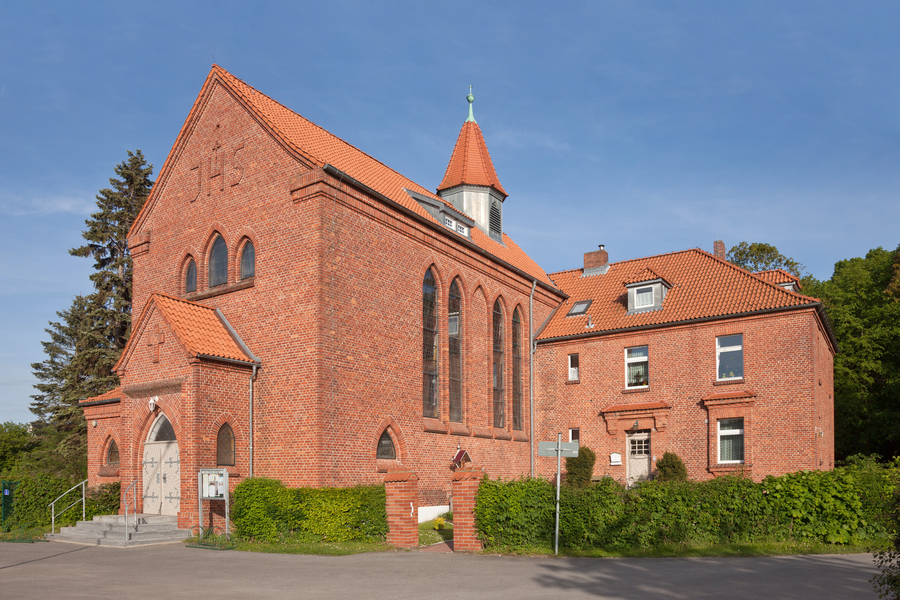 The Catholic Church of St. Mary of the Consolation in Barth, Hither Pomerania, Germany